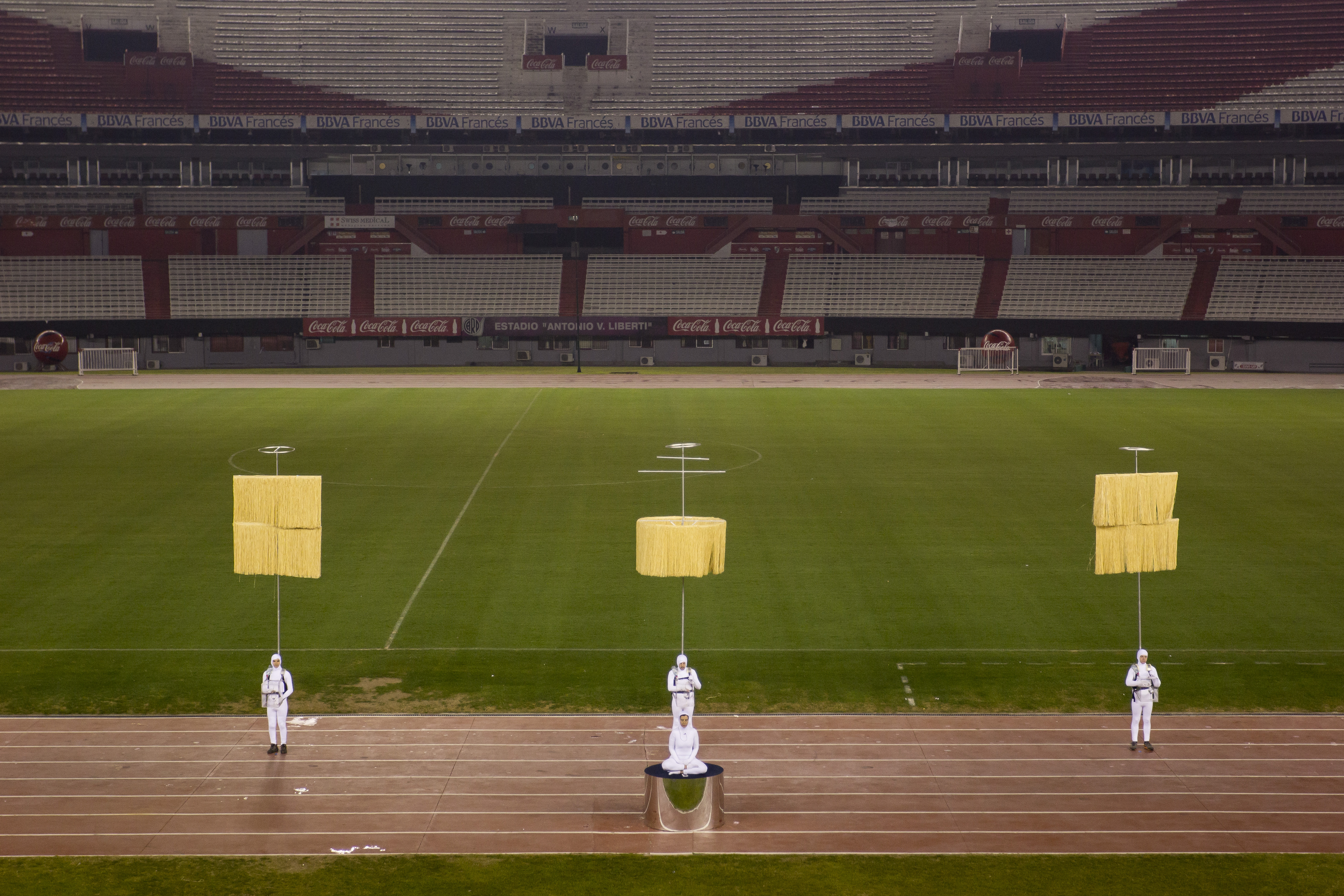 Eduardo Navarro Di Tella University, Soy un pedazo de Atmósfera. Ensayo de Situación II, 2013.